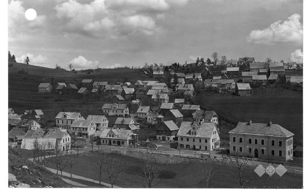 Postcard of Ljubljana Hrib - Loški Potok